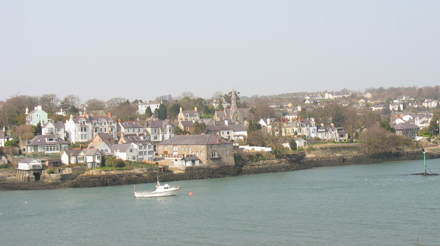 The waterfront between Pont y Borth and Porth y Wrach The large building is a former warehouse.